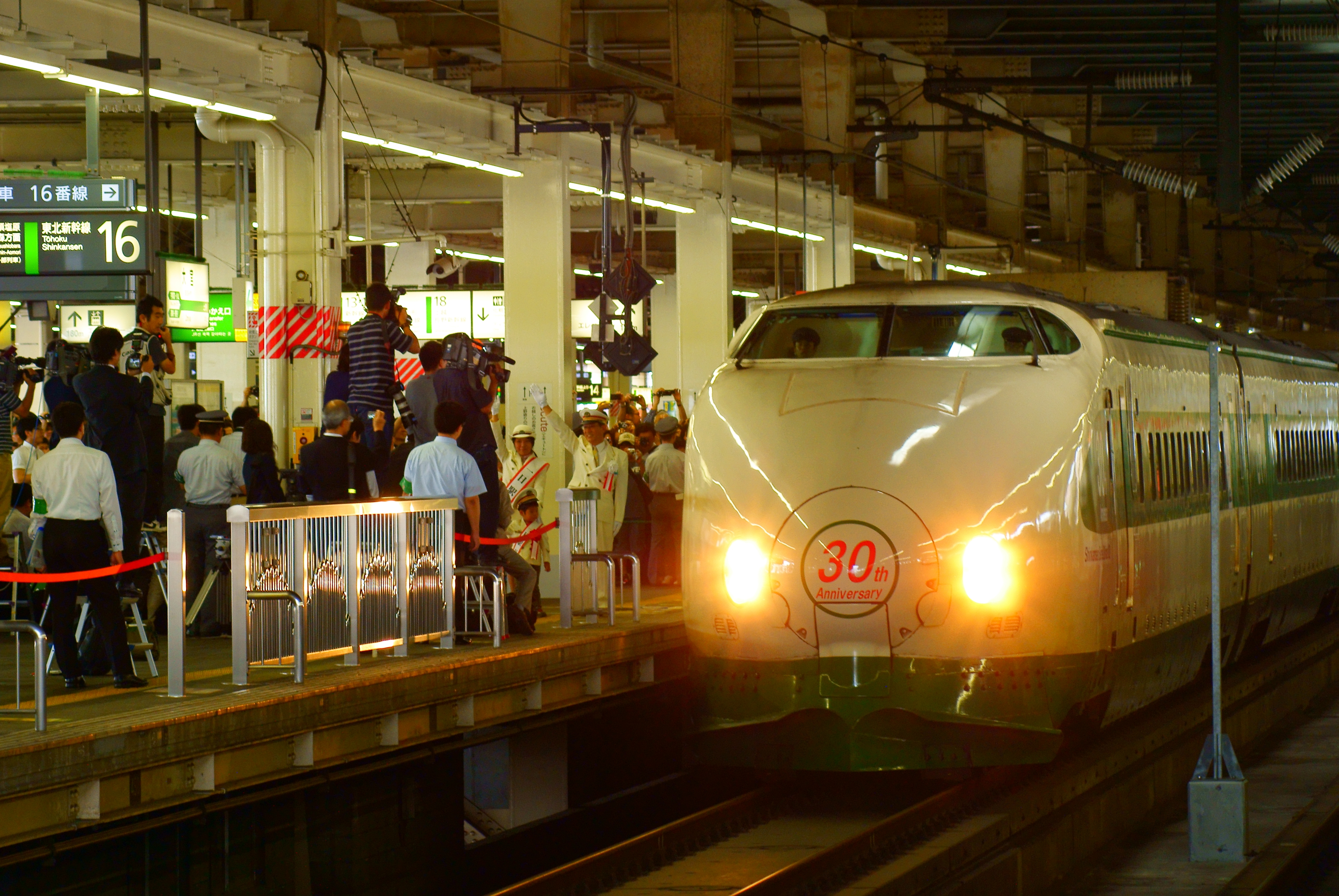 The departure ceremony of Tohoku shinkansen 30th anniversary train was held at Omiya station in June 23, 2012.